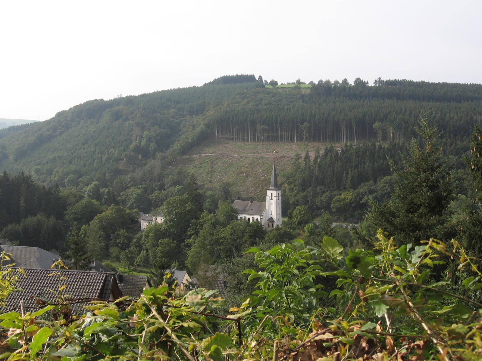 Kautenbach, Luxembourg